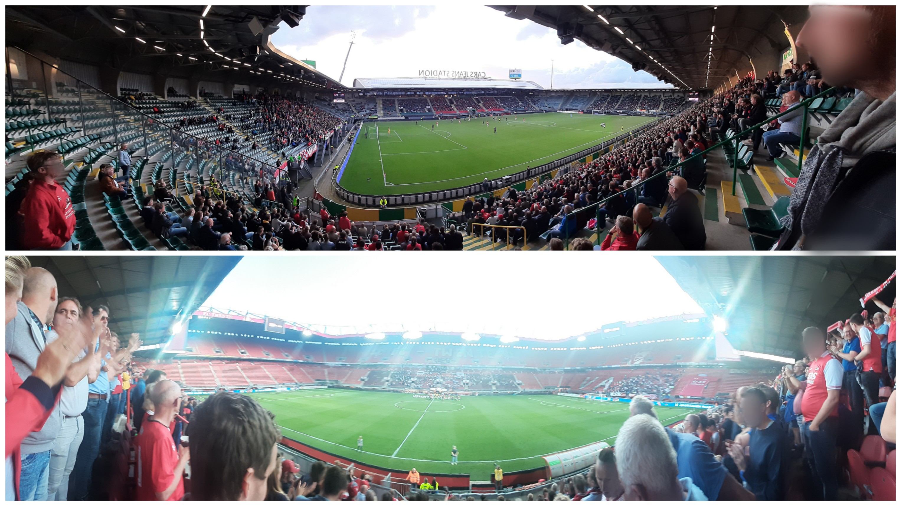 AZ played its own home matches in another stadium than its own, after a part of the roof collapsed on the 10th of August 2019. These are combined Panoramic views of the 'AZ-stadium' in the Hague and in Enschede, both made by myself